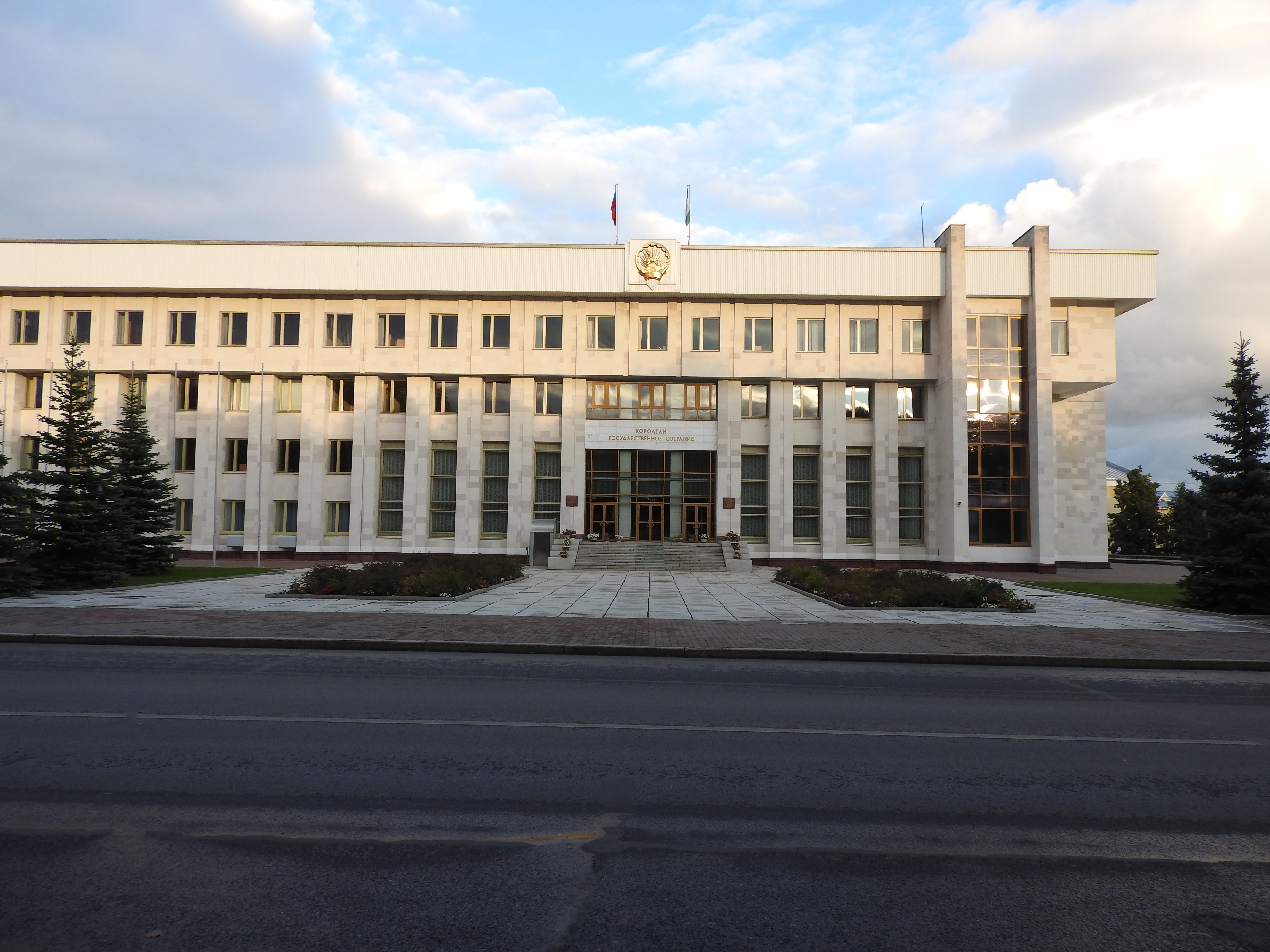 The State Assembly—Kurultay